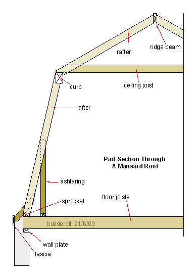 Drawing by Bill Bradley.AKA builderbill billbeee (talk) 22:12, 9 July 2009 (UTC) Feel free to use it, either credit me as the creator or use it as is with my signature intact. You can contact me through my website if you would like more photos of the same subject or higher definition.